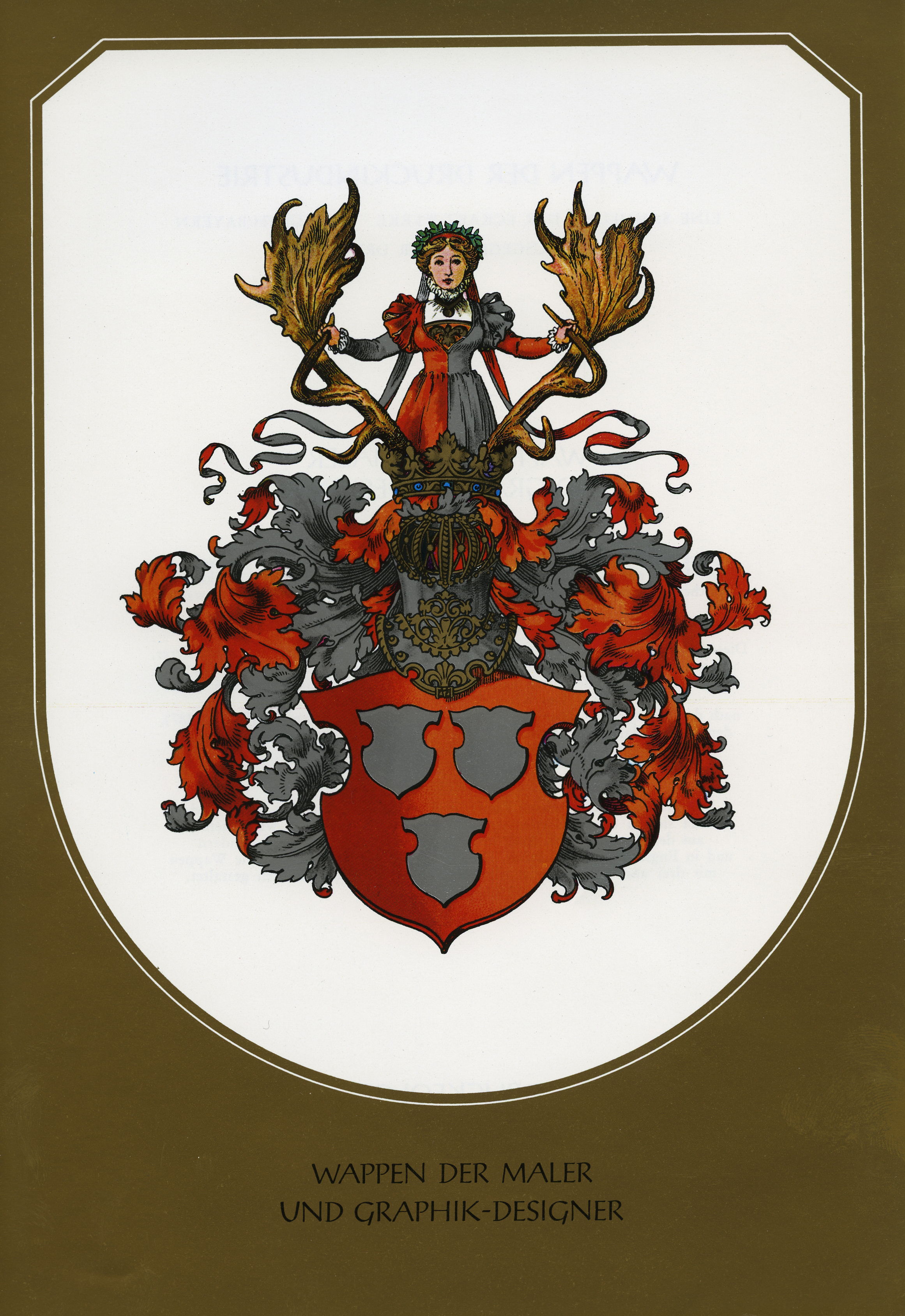 Coat of Arms, Painter and Graphic-Designer